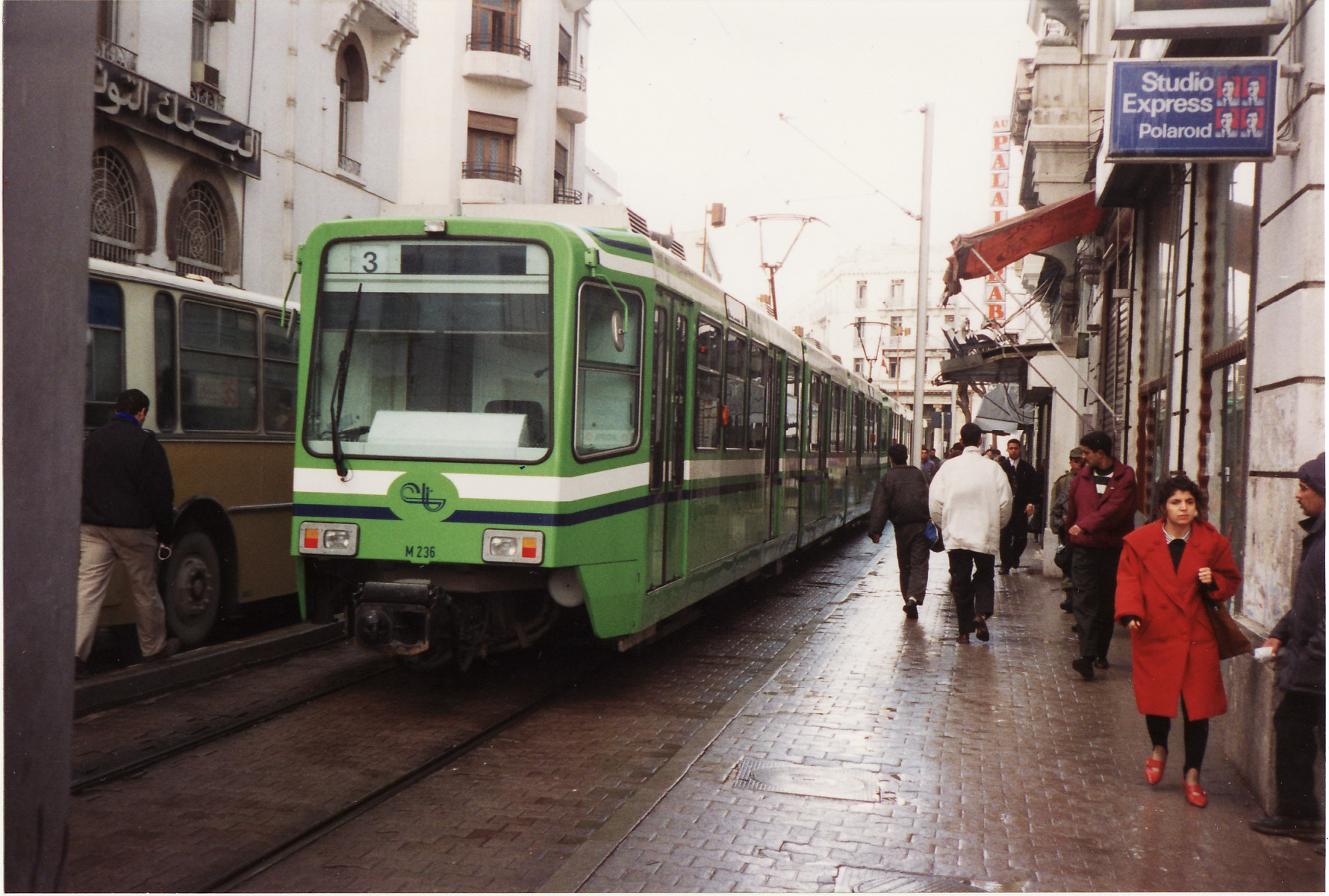 Tram, Tunis